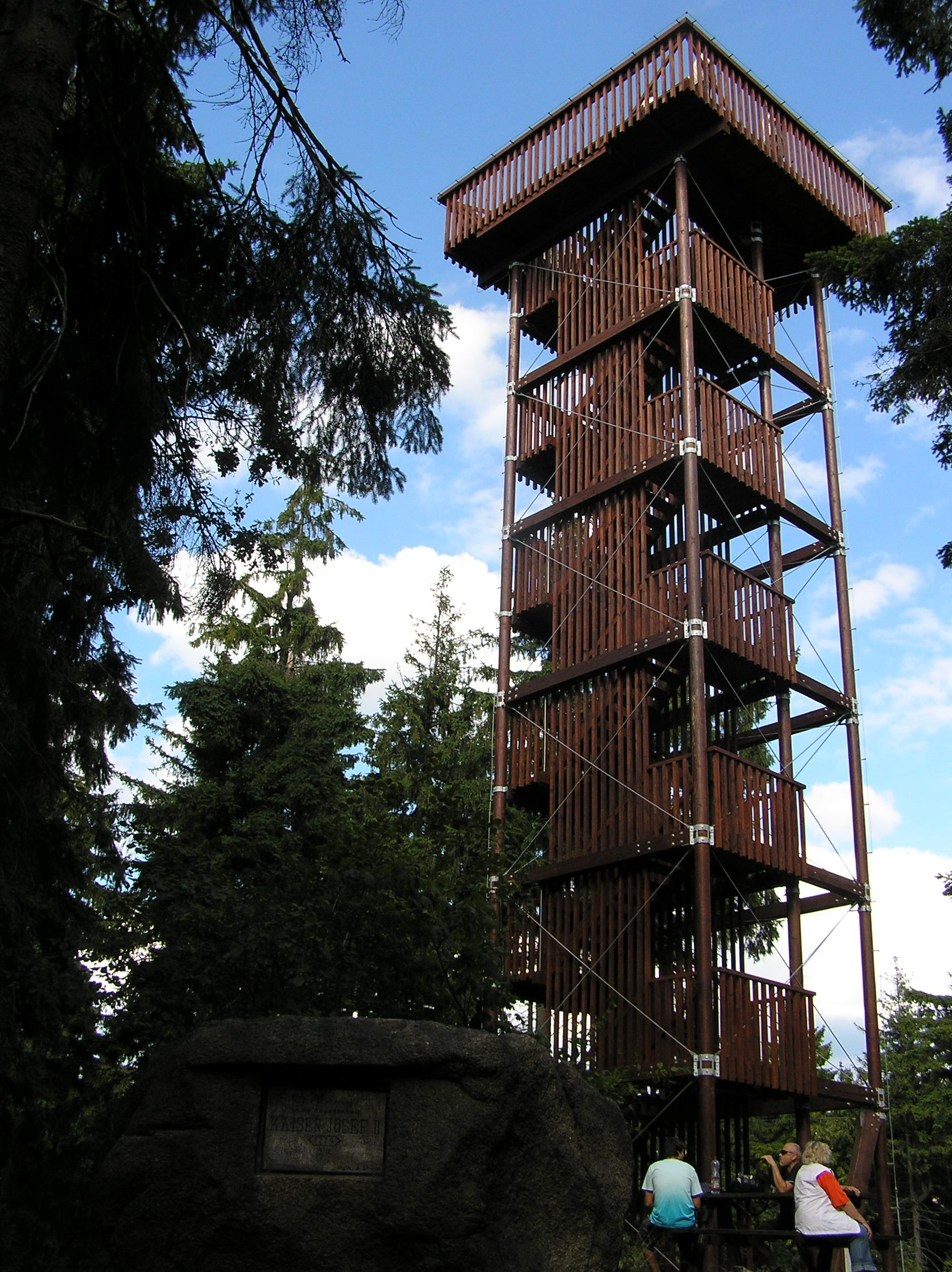 Rozhledna na Císařském kameni, Liberec-Vratislavice nad Nisou.